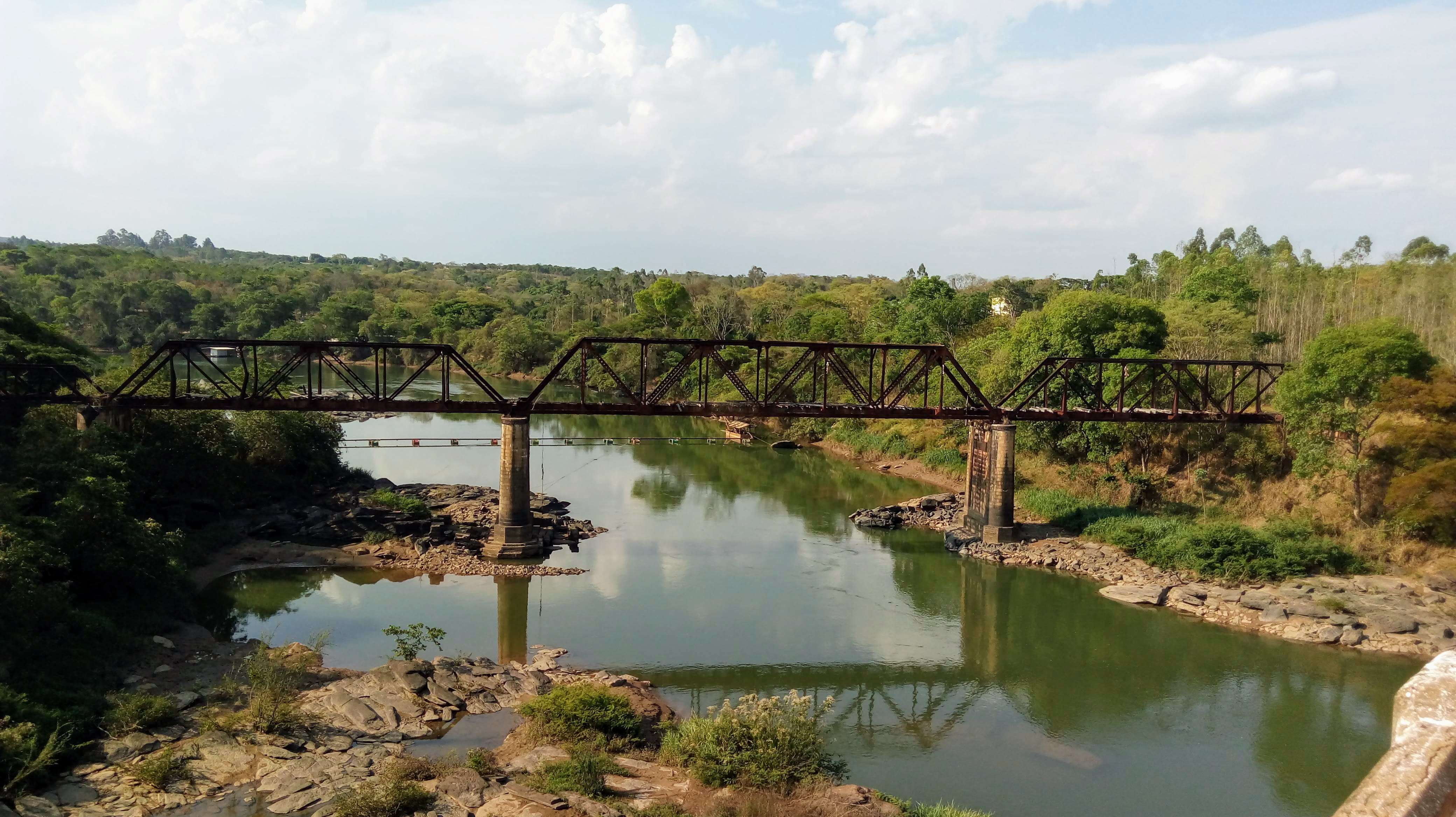 Epitácio Pessoa Brigde is over Corumbá river between the cities Pires do Rio and Urutaí, state of Goiás, Brazil. It was opened in 13/07/22 as part of the Goyaz Railway. The materials for the construction were brought from Eroupe and USA. The bridge's name is a tribute to Epitácio Pessoa, Brazil's president in the years of its construction. It's listed as historical and cultural heritage of Goiás. Currently, the bridge is abandoned, although firm and resistant to the time. Cultural propertyQ67171752, Pires do Rio, Goiás, Brazil Q67171752, P727